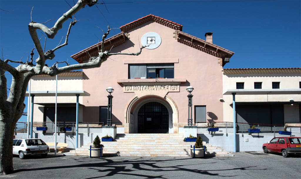 village of Lagnes, town office (Vaucluse, France)